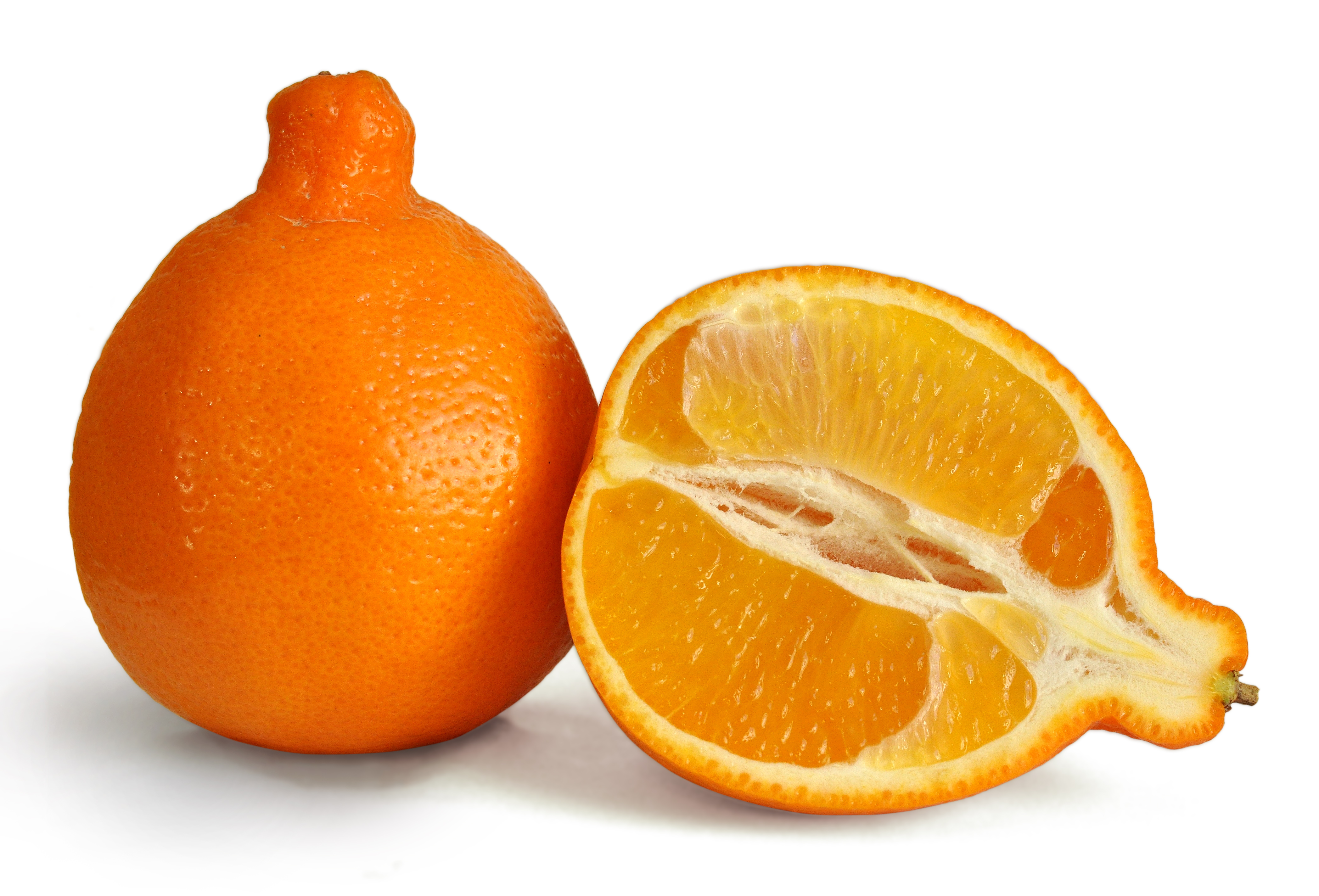 Minneola is a cross breed between mandarins and grapefruits.